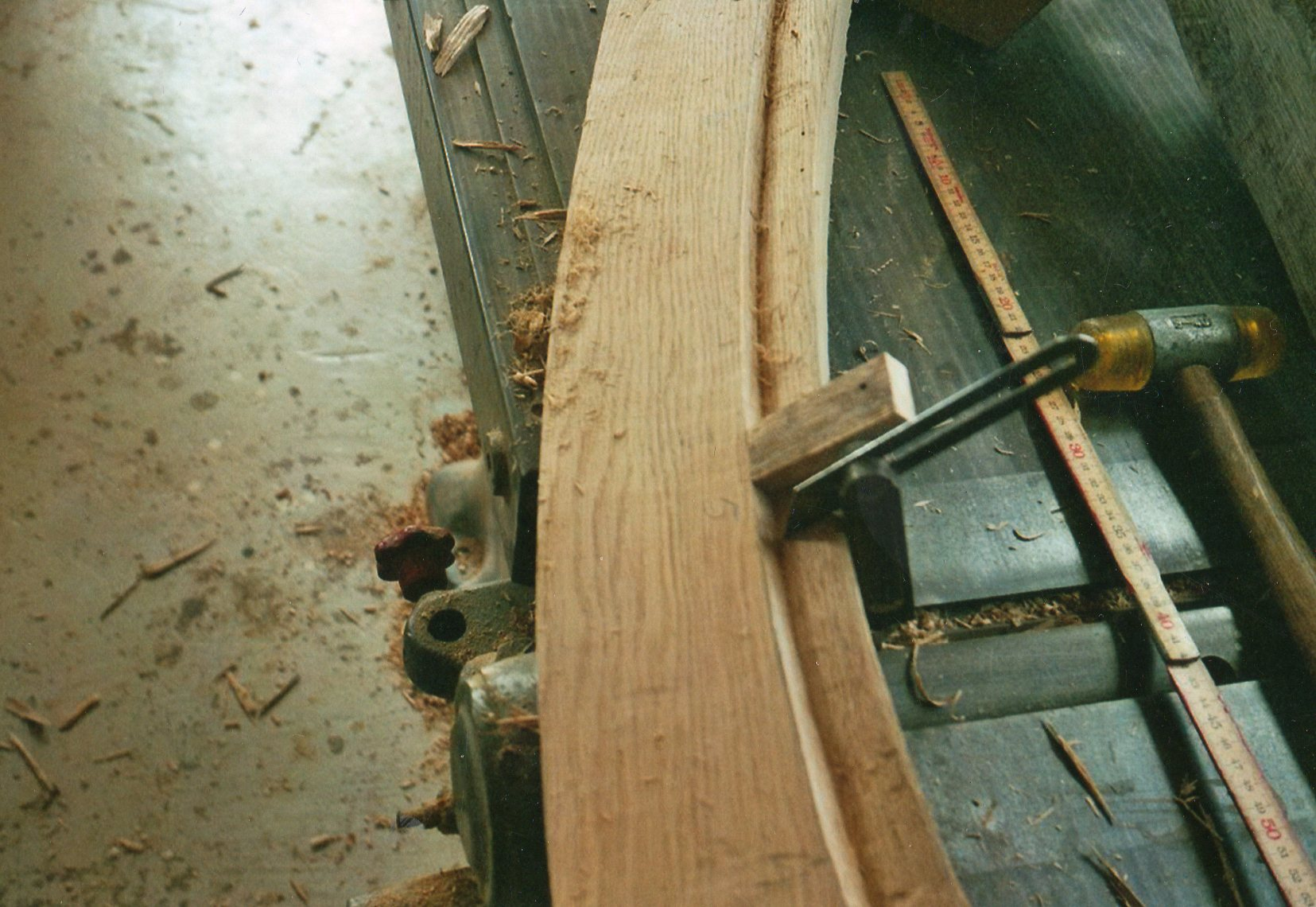 Rabbet in the Transom (nautical)